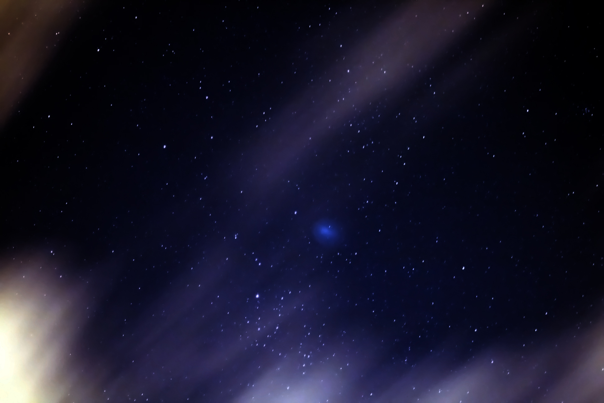 Comet Holmes.